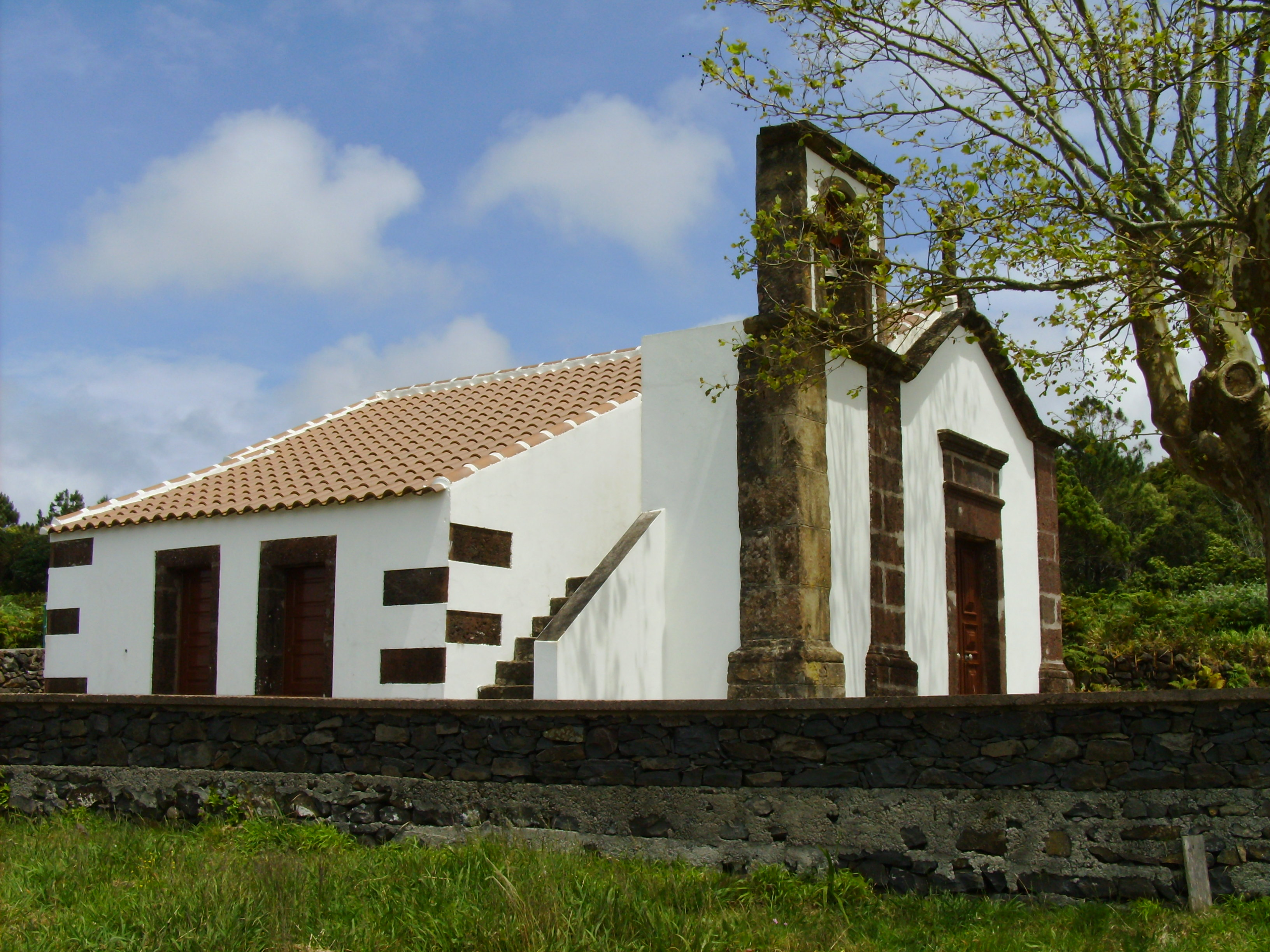 Chapel of Nossa Senhora de Monserrate, Santa Maria (Azores), Portugal